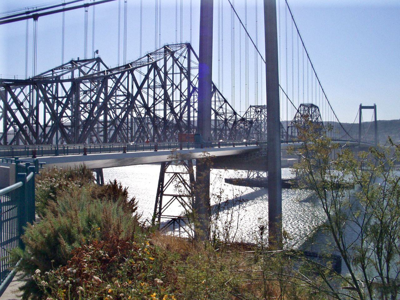 Carquinez Bridge in 2006 from left to right 1956, 1928 and 2003 spans.